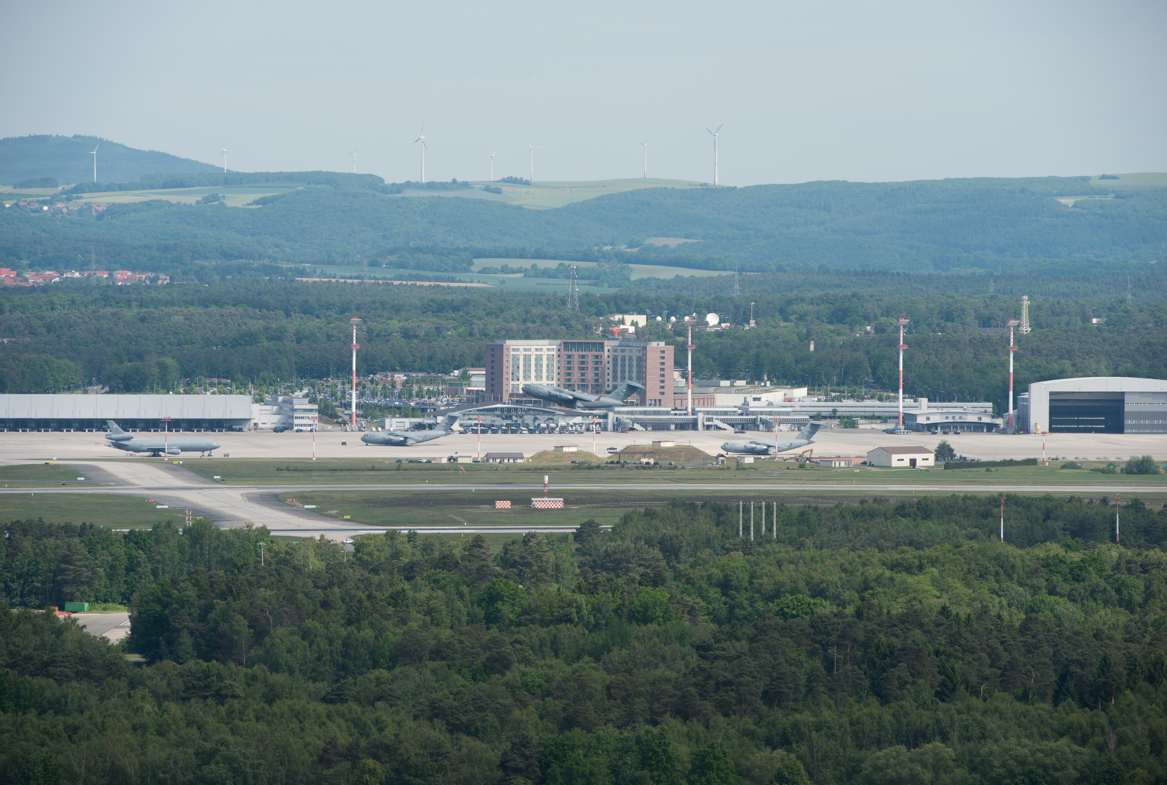 View to the Ramstein Air Base with airfield, main building and hangars.